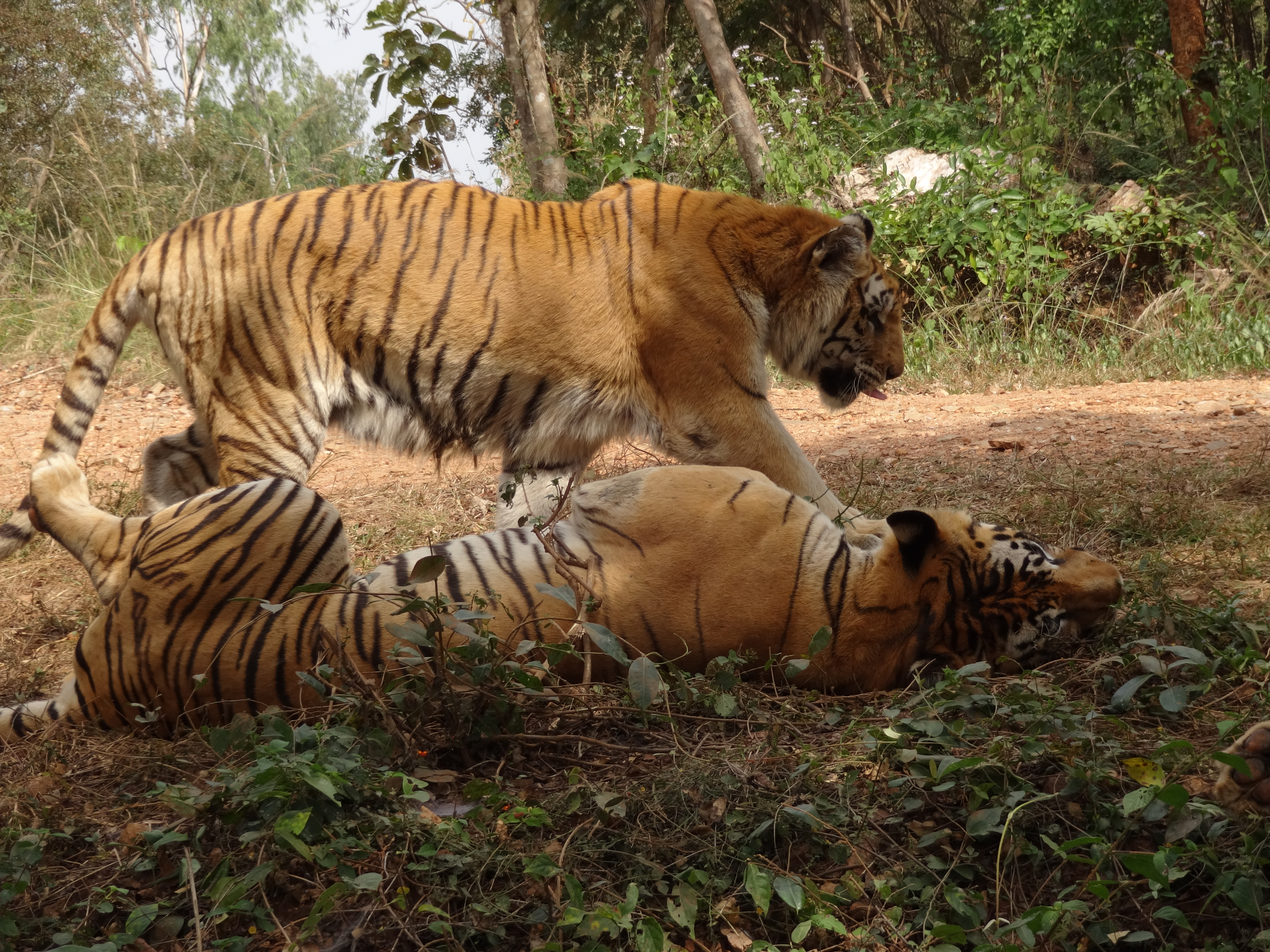 Bengal tigers at Tyavarekoppa Lion and Tiger Safari, located in the Shimoga district of the state of Karnataka, India.